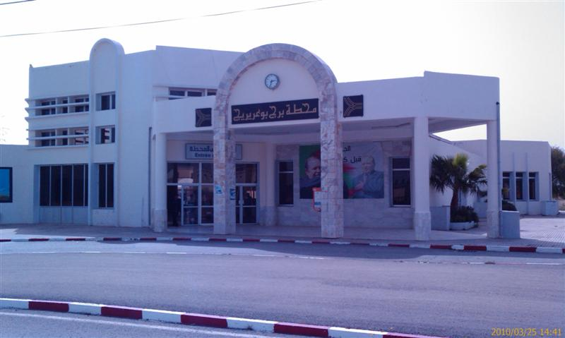 Bordj Bou Arreridj railway station